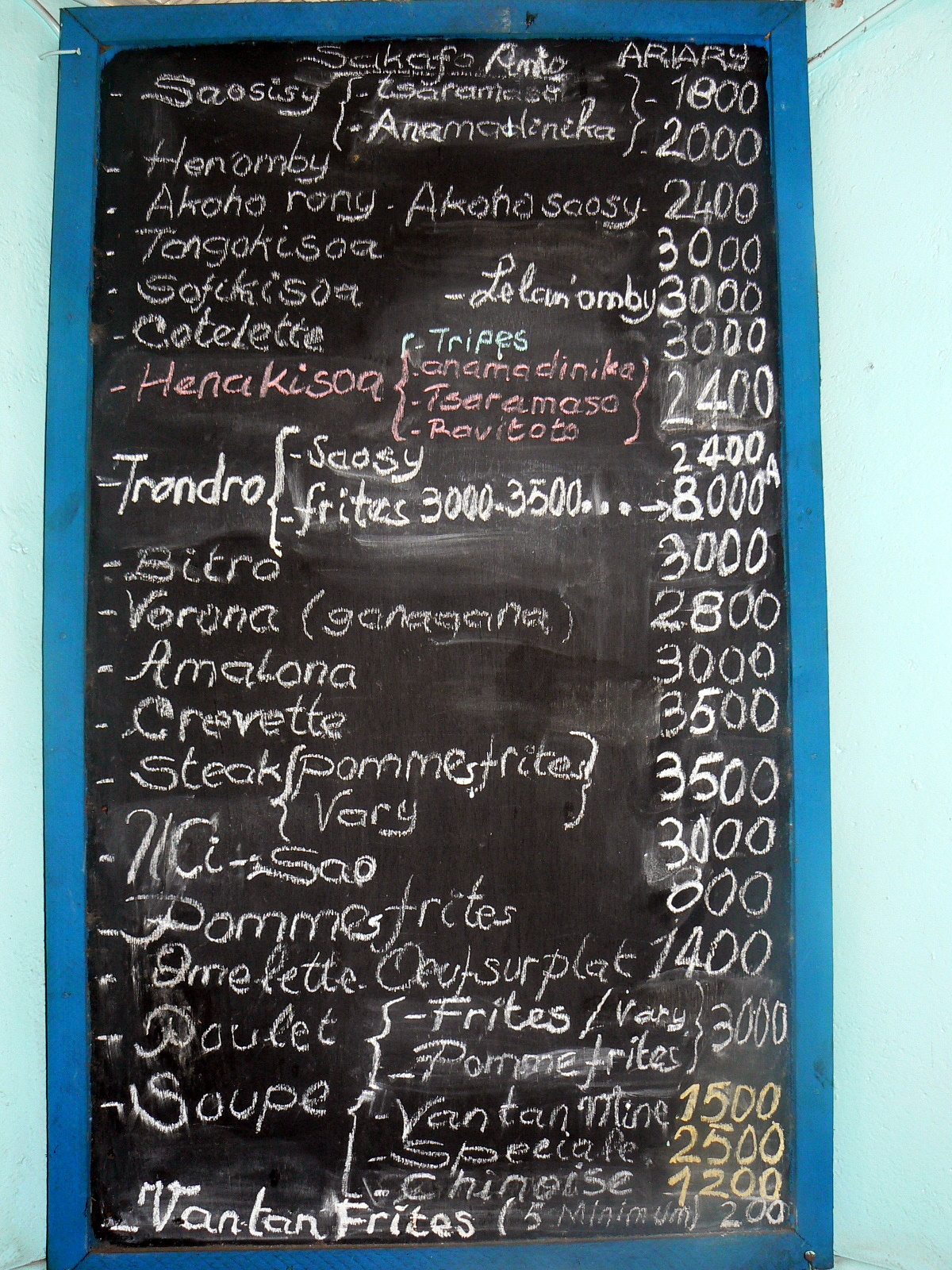 Menu of the day at a hotely (street-side eatery) in Madagascar.